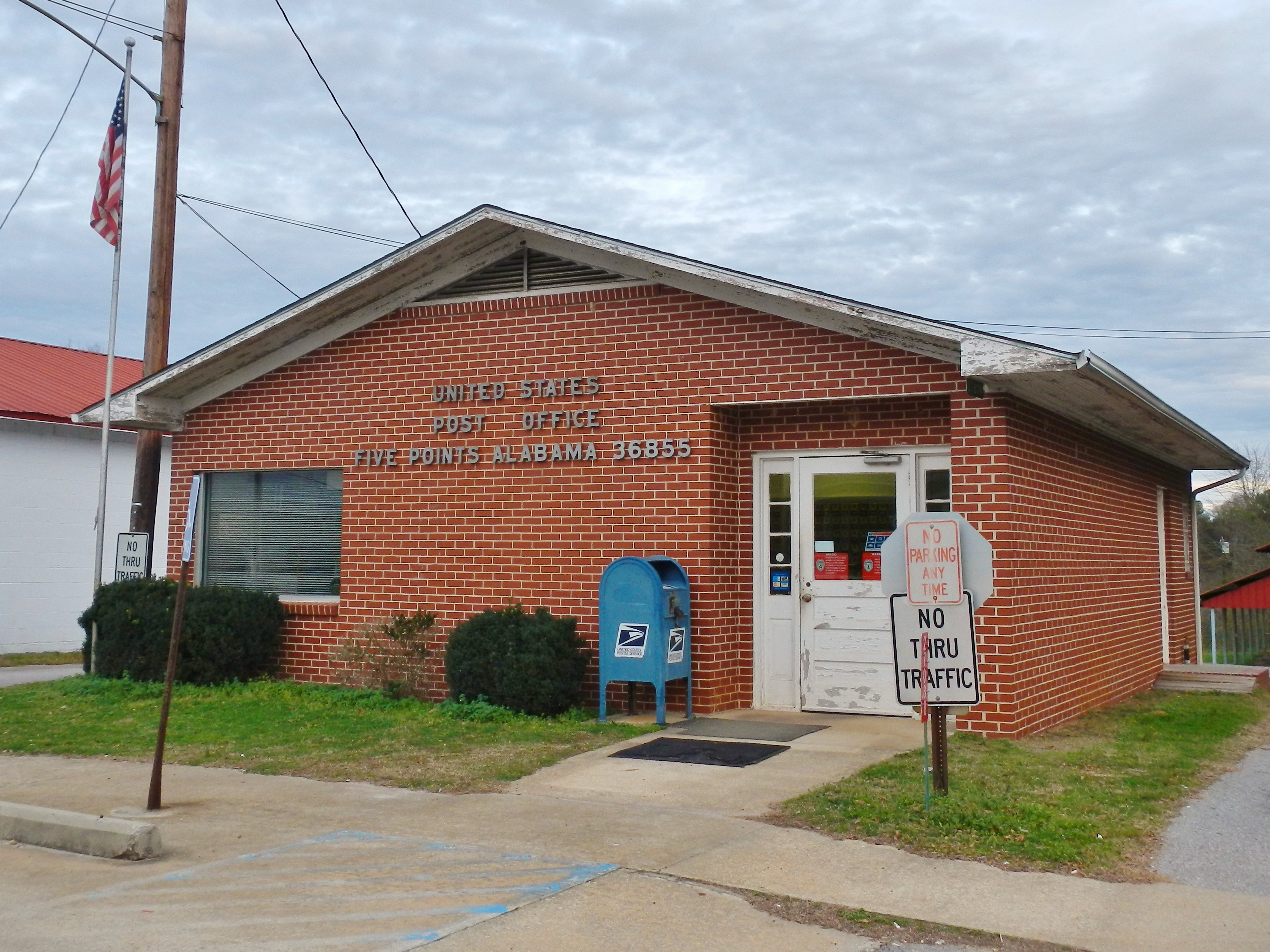 This is a photograph of the post office in Five Points, Alabama.